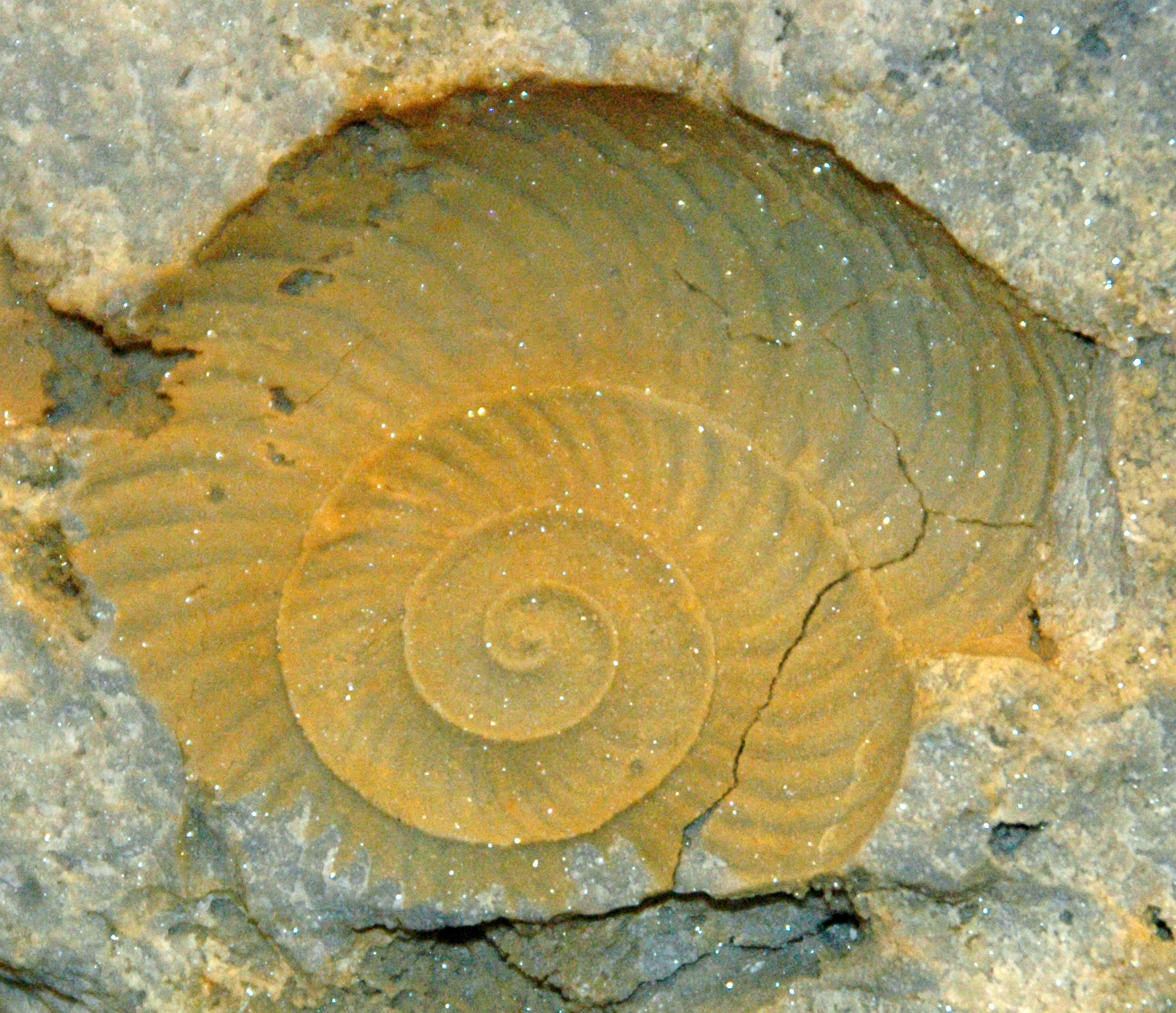 Graftonoceras - limonite-stained external mold in dolostone (public display, OSU 24835, Orton Geology Museum, Ohio State University, Columbus, Ohio, USA). Nautiloids are squid-like creatures that construct long and slightly tapering or coiled, aragonitic, hollow shells with regularly-spaced internal walls. In the fossil record, the original aragonite shell has usually dissolved away, leaving an internal mold (an impression of the shell's interior). Nautiloids were relatively common components of Paleozoic oceans. Most species had straight, slightly tapering shells, but some had loosely coiled or tightly coiled shells. The entire group is represented in today's oceans by three living species of chambered nautilus - Nautilus pompilius, Nautilus macromphalus, and Allonautilus scrobiculatus. This external mold of a Graftonoceras nautiloid has a coiled shell. The pattern of its original shell ornament, consisting of curvilinear waves, is still preserved. Classification: Animalia, Mollusca, Cephalopoda, Nautiloidea, Tarphycerida, Trocholitidae Stratigraphy: Lockport Dolomite, Niagaran Series, Middle Silurian Locality: unrecorded locality (probably a quarry) at or near Coldwater, southern Mercer County, western Ohio, USA